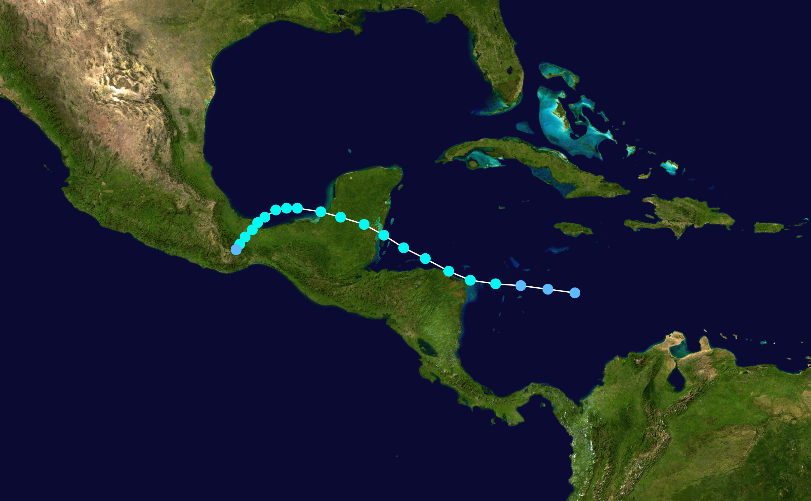 Tropical Storm Hermine (1980) track. Uses the color scheme from the Saffir-Simpson Hurricane Scale.